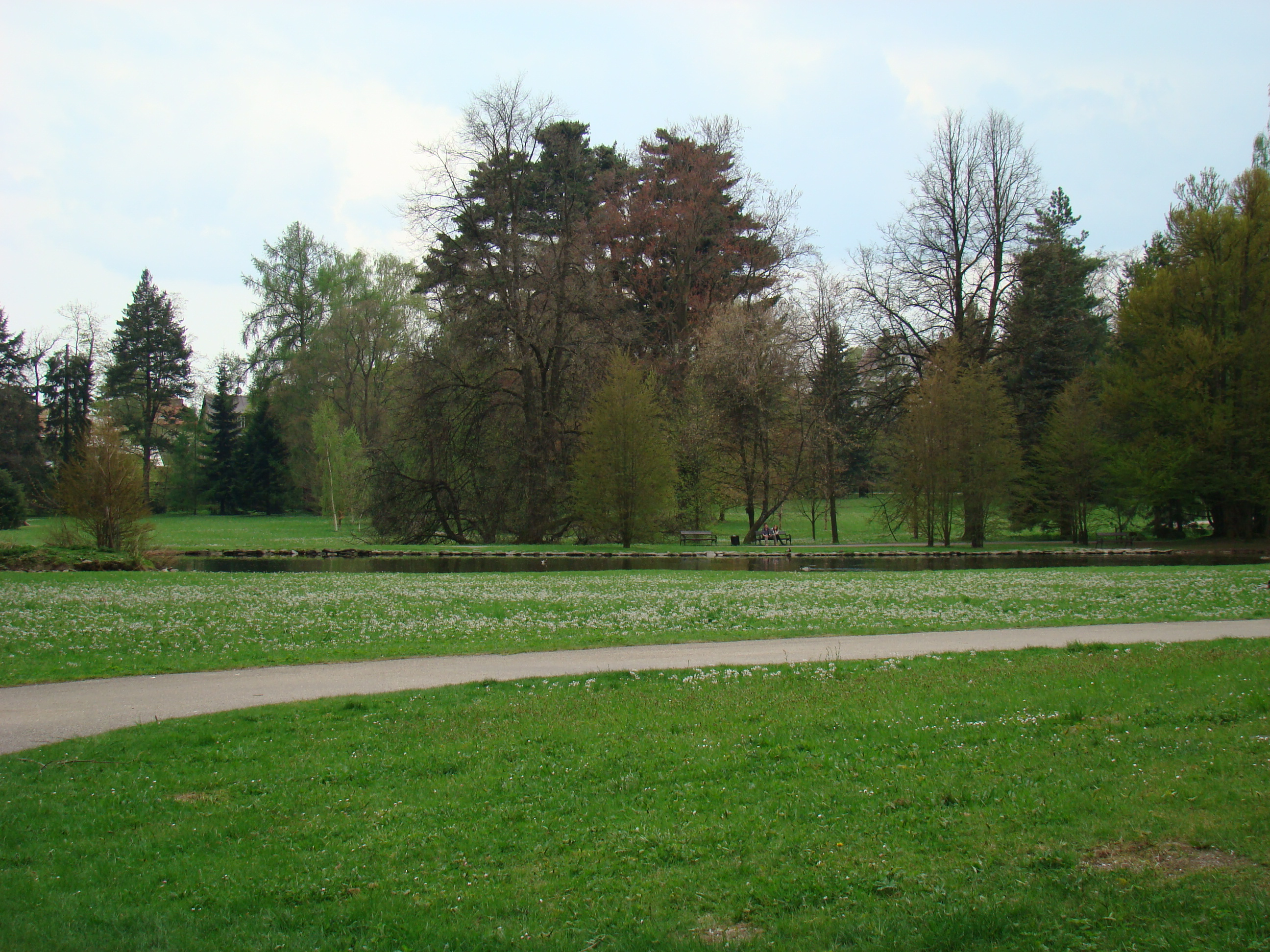 Here was an citadel